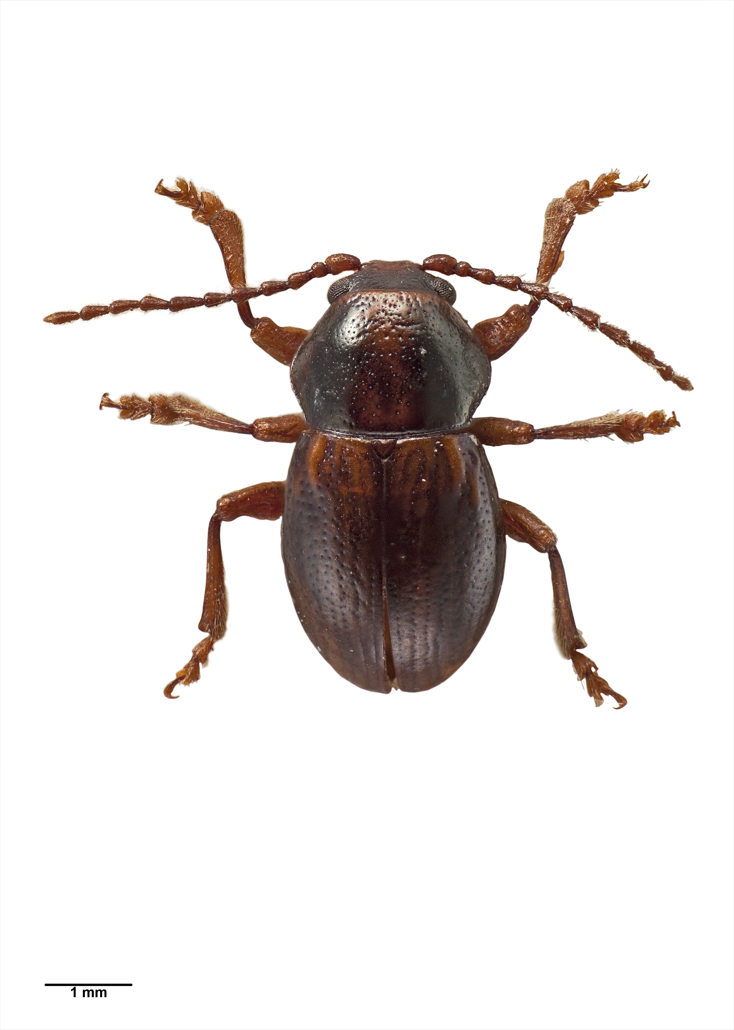 Male holotype specimen of Peniticus wallacei AMNZ21838 held at the Auckland War Memorial Museum.